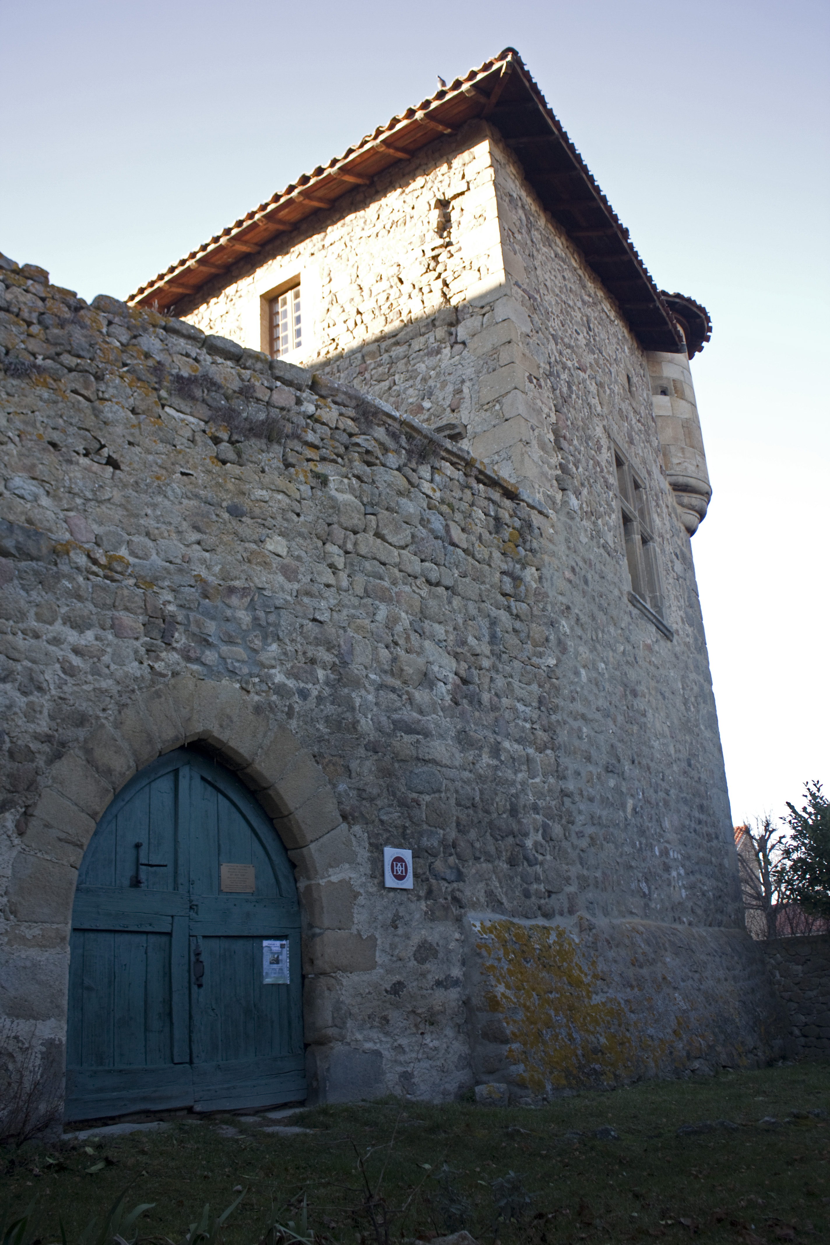 Castle of Valprivas: Gateway to the enclosure from the 15th century.